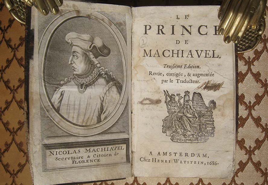 Книга «Государь» 1532 года издания — самая неоднозначная, но точно значительная работа флорентийского государственного деятеля эпохи Возрождения Никколо Макиавелли